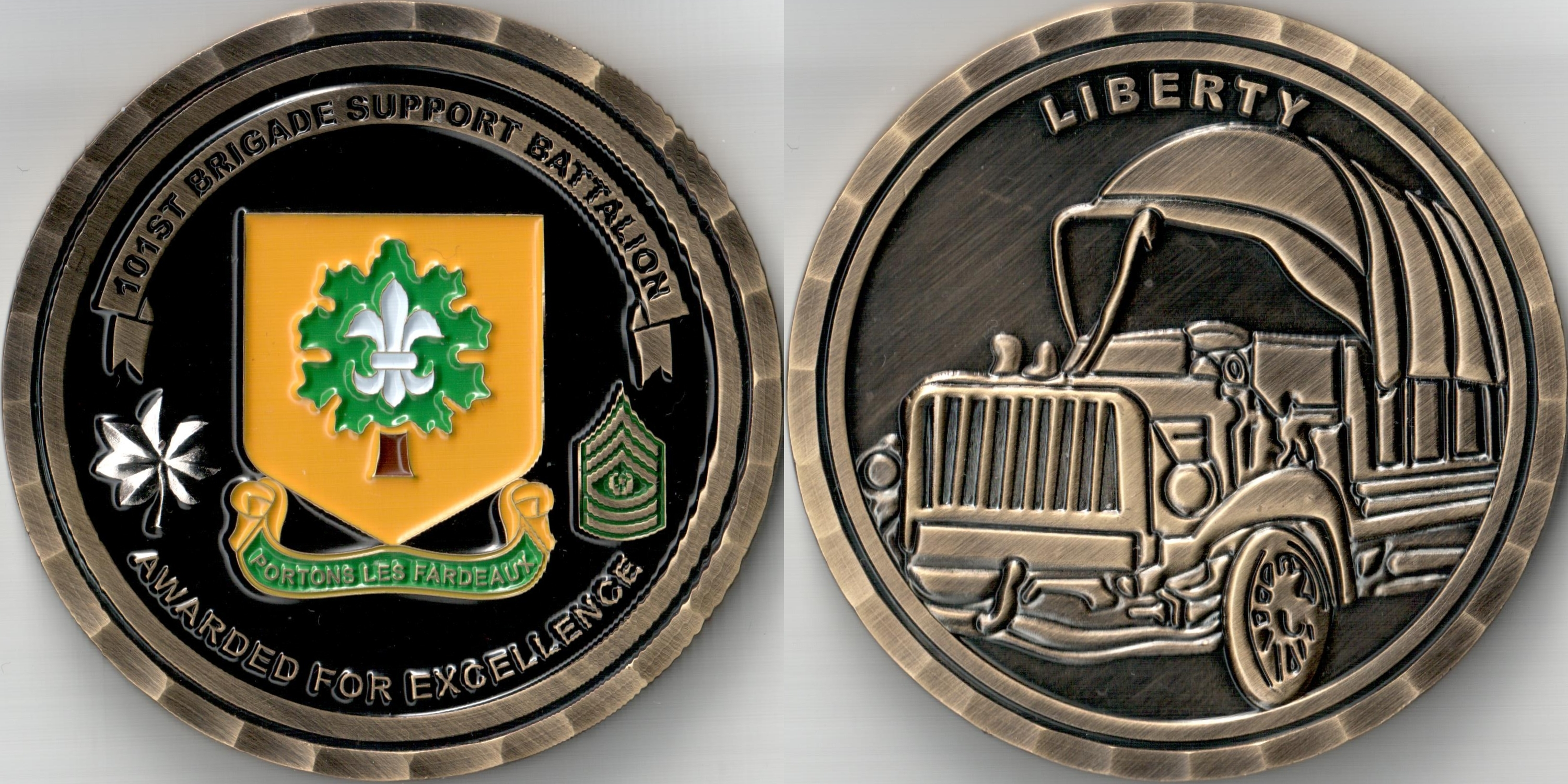 Challenge coin 101st Brigade Support Battalion „Liberty”